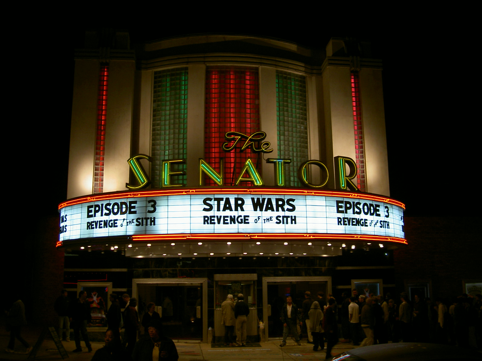 Senator Theater, Baltimore, Marylan